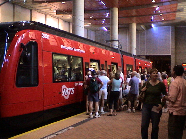 Trolley arriving at the SDSU Green Line Trolley Station in San Diego, CA